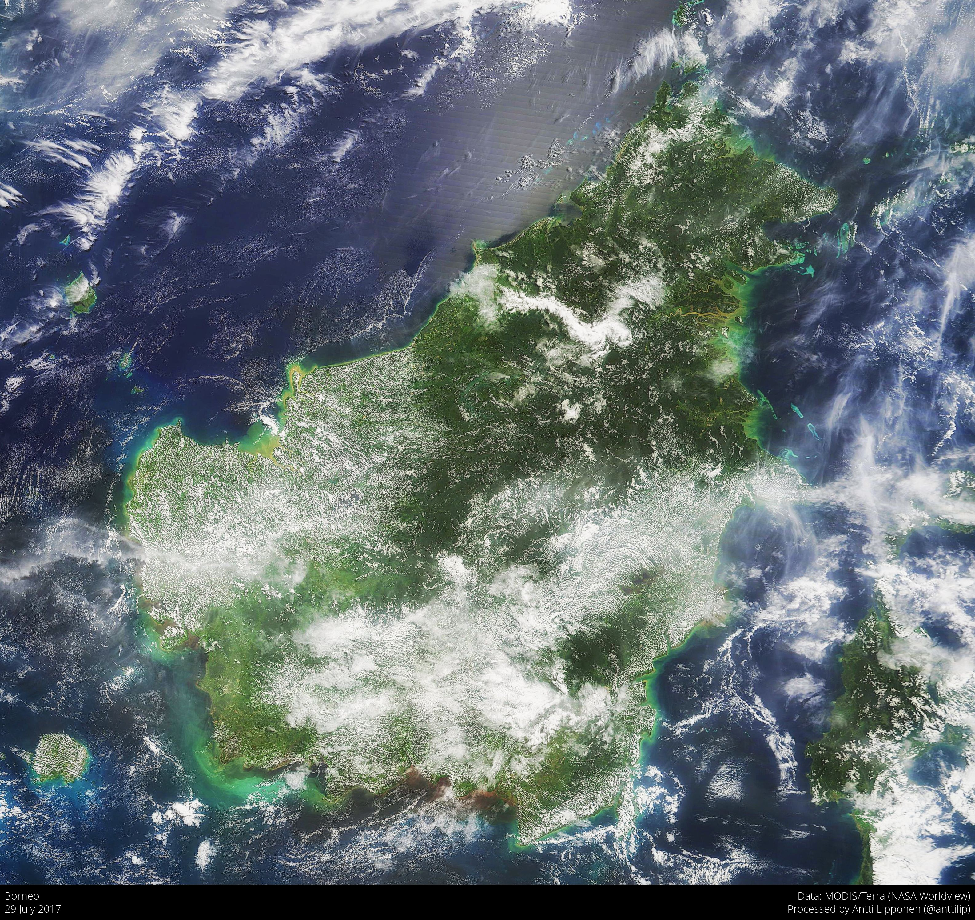 Borneo 29 July 2017. MODIS/Terra satellite image.